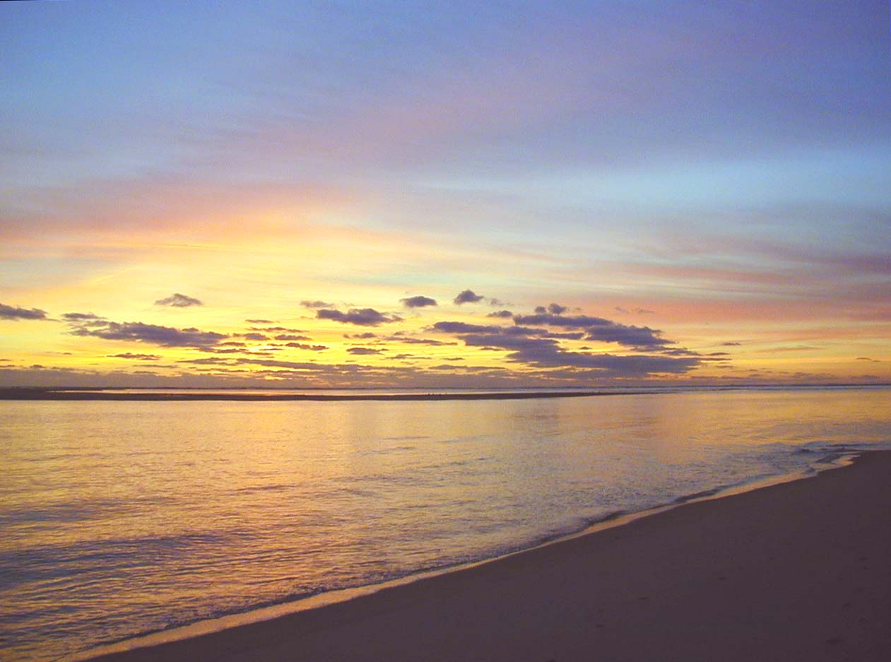 Sunrise as seen over the Atlantic ocean from Chatham, MA, USA